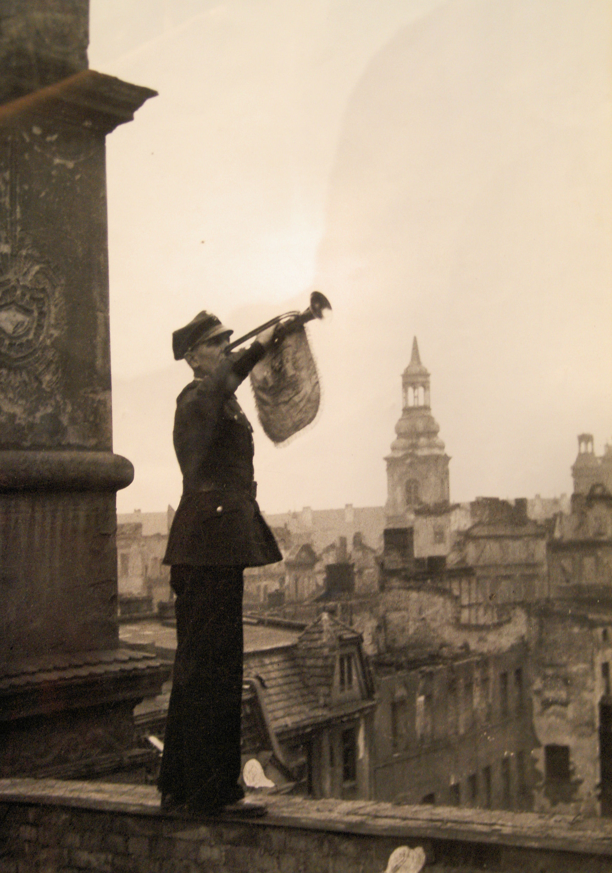 December 27th, 1945 - The Anthem of Poznań played for the first time after the Second World War, Poznań, Poland